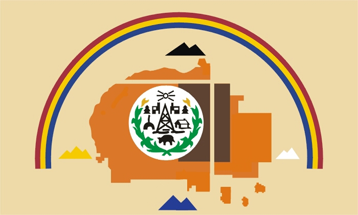 Amended Navajo Flag which includes Ramah, Alamo, Tohajilee, Nahata Dziil, And Aneth